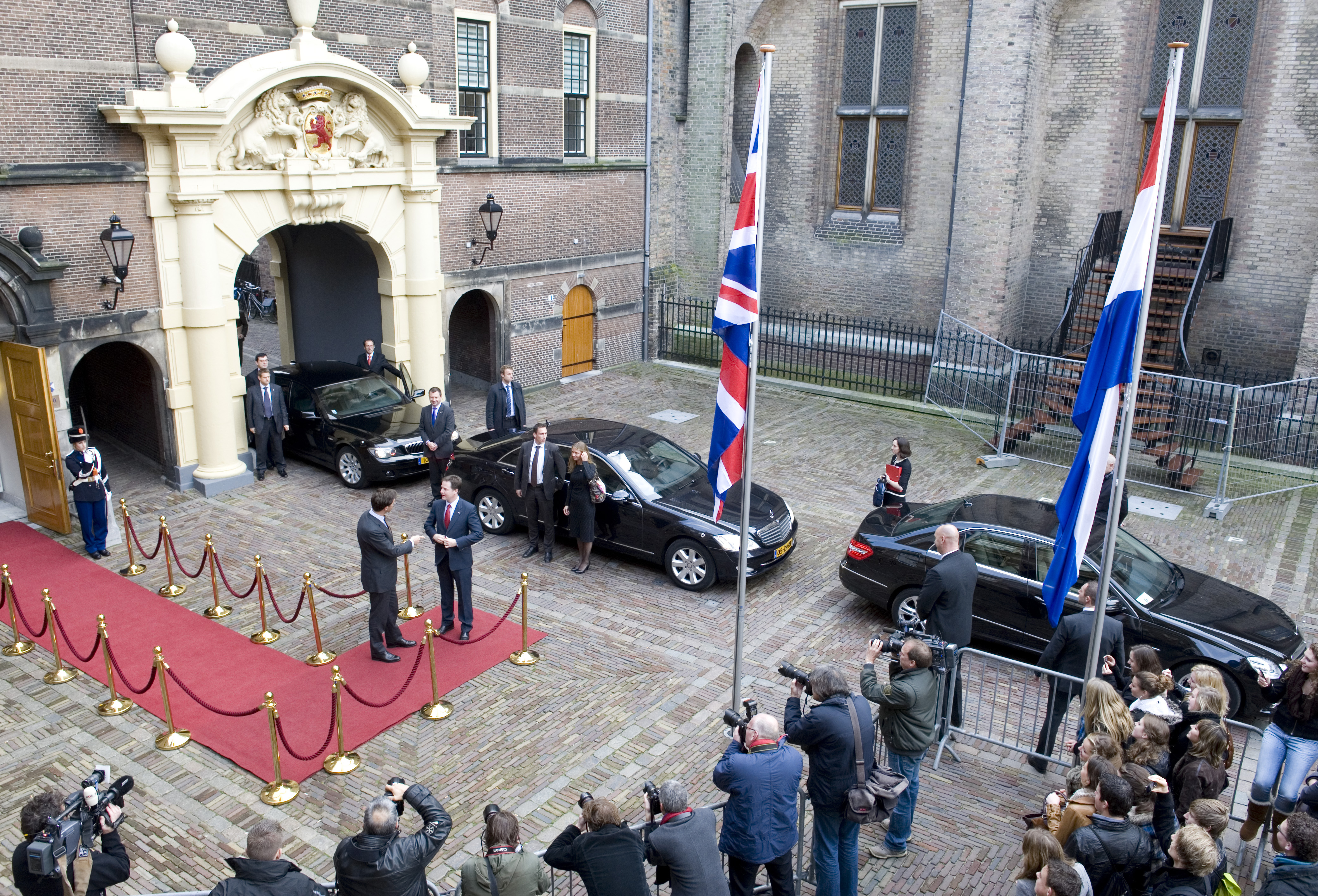 Dutch Prime Minister Mark Rutte greeting British Deputy Prime Minister Nick Clegg at the Binnenhof